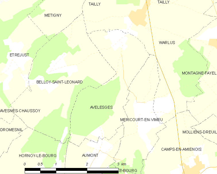 Map of French municipality Avelesges